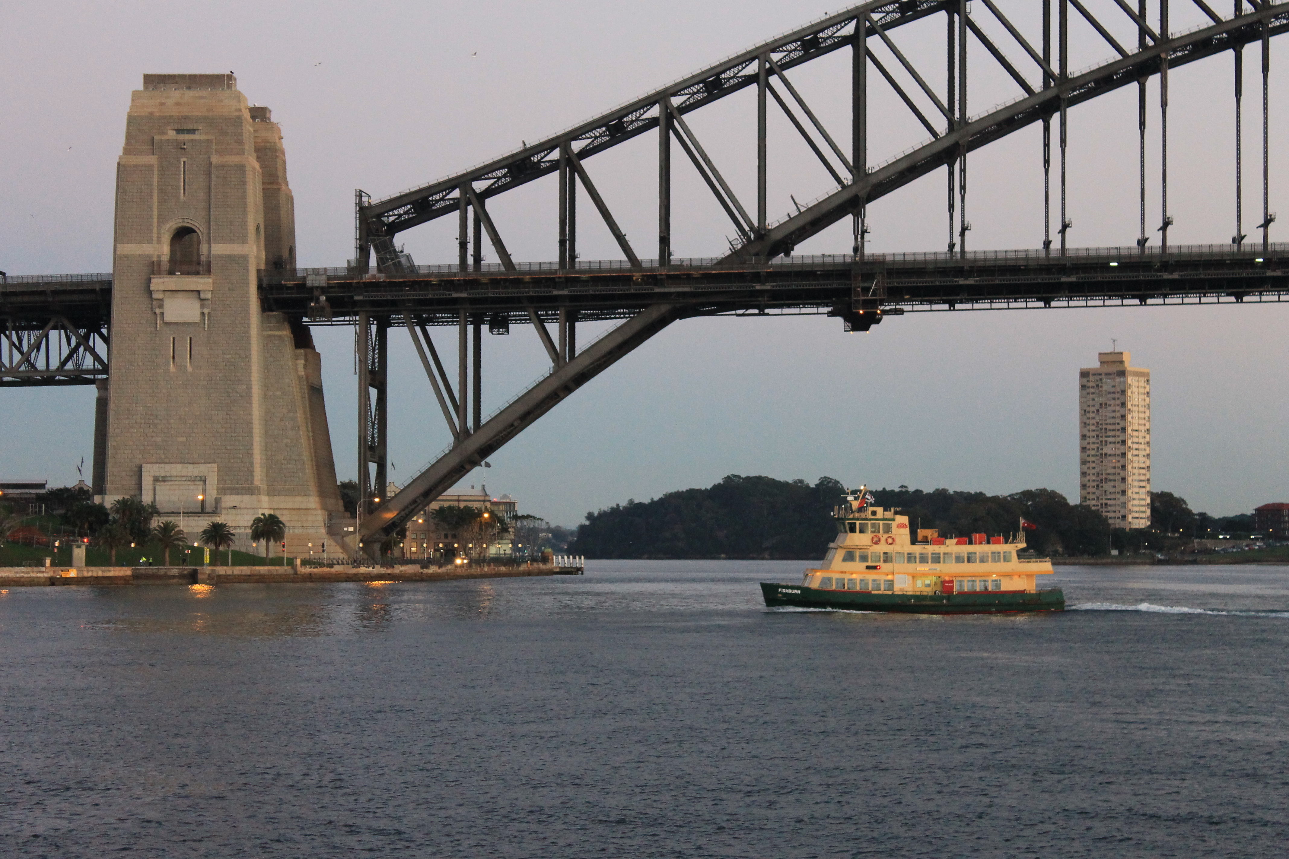 A Sydney ferry